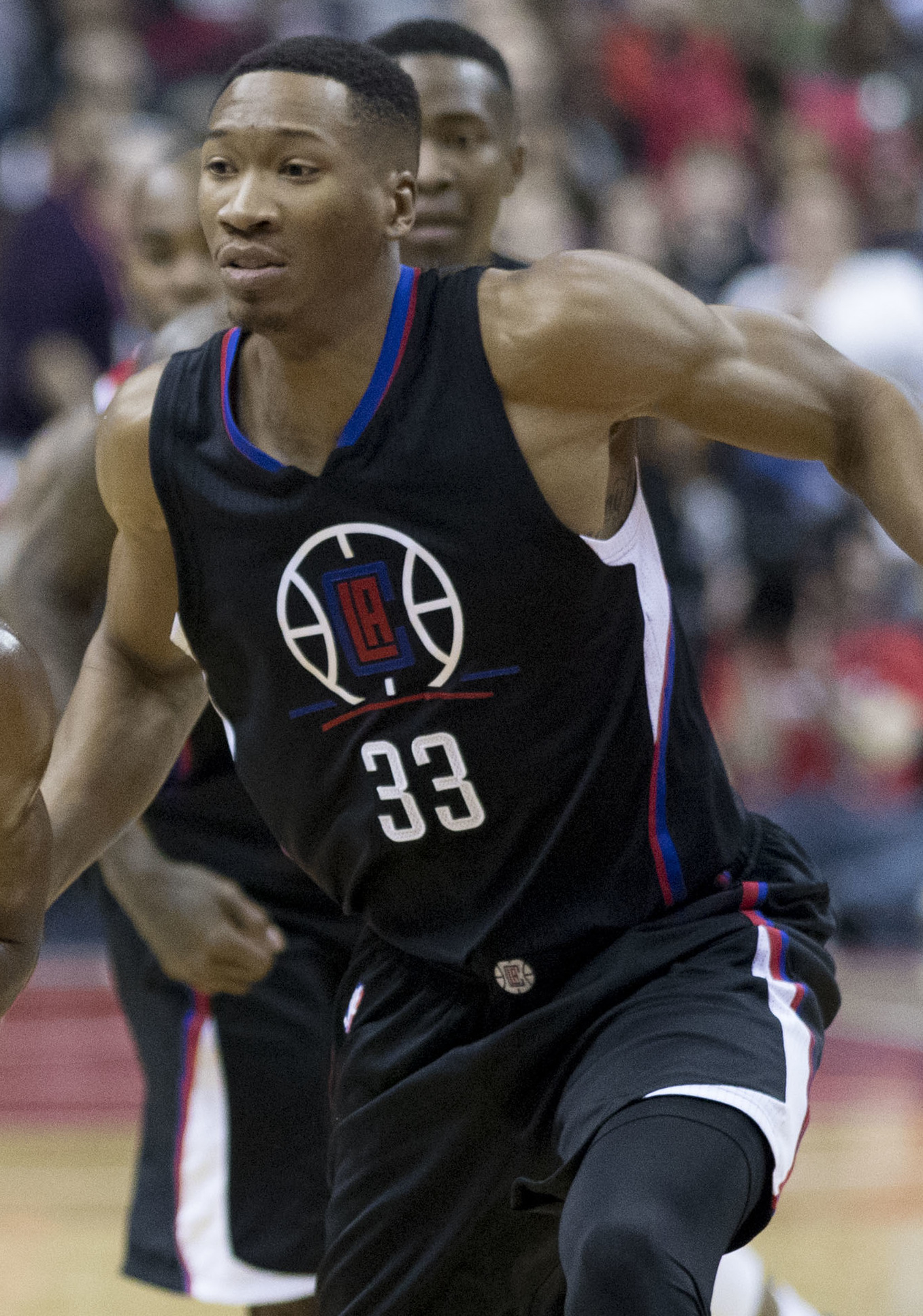 Clippers at Wizards 12/18/16